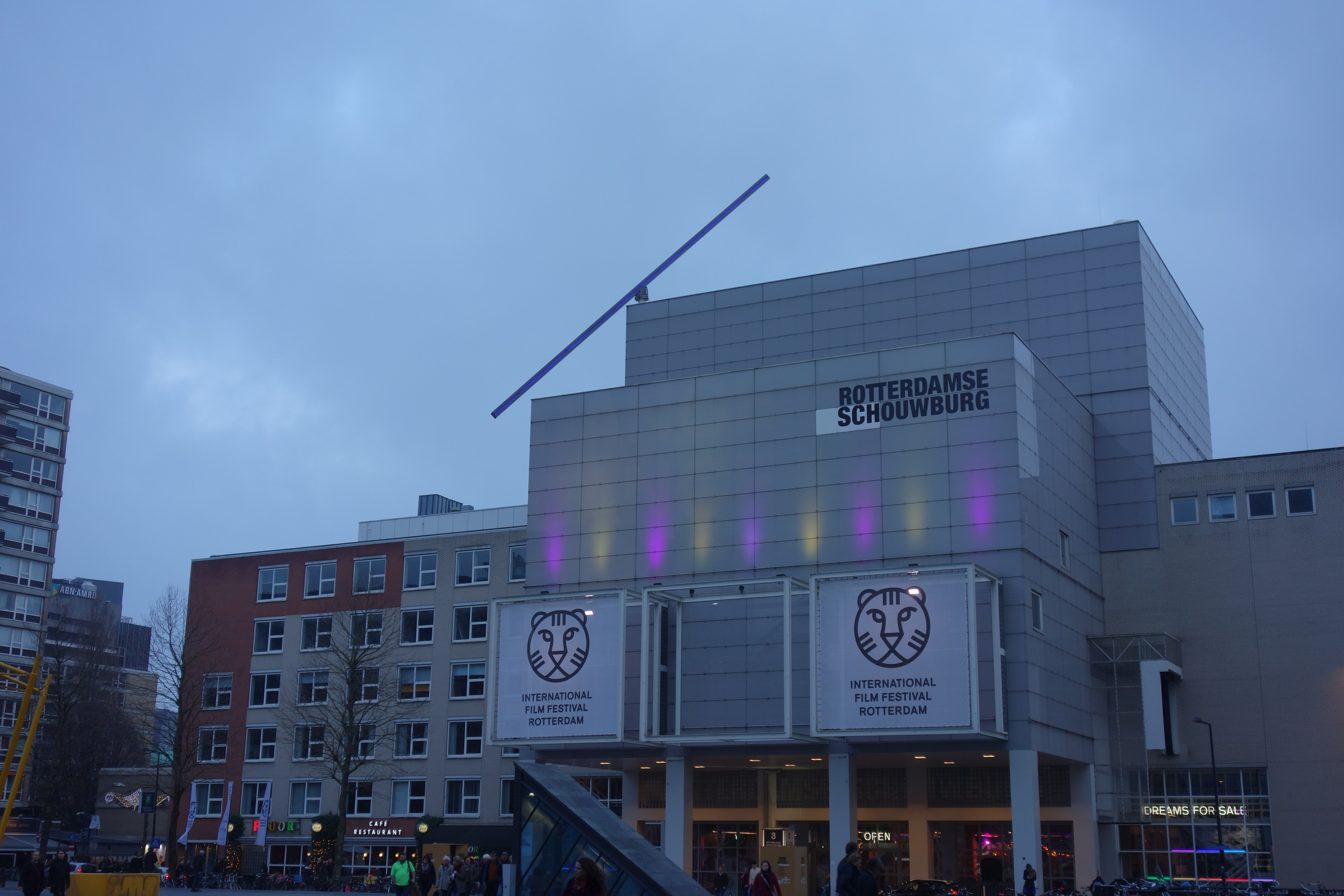 Rotterdam Theatre during International Film Festival Rotterdam (IFFR) 2017